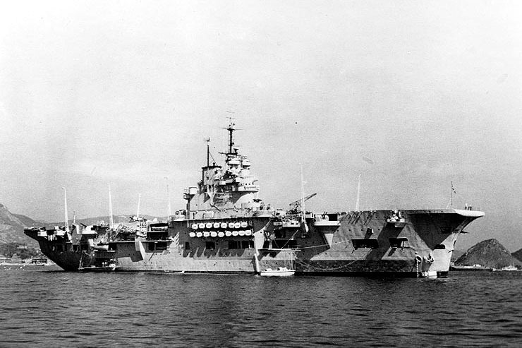 HMS Unicorn (I72), British Aircraft Maintenance Carrier, 1943. Moored in a southern Japanese port (probably Sasebo) after a tour of duty in Korean waters.